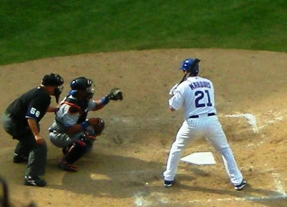 Jason Marquis pinch hits in the bottom of the 8th inning against the Mets at Wrigley Field, Tuesday, April 22, 2008.